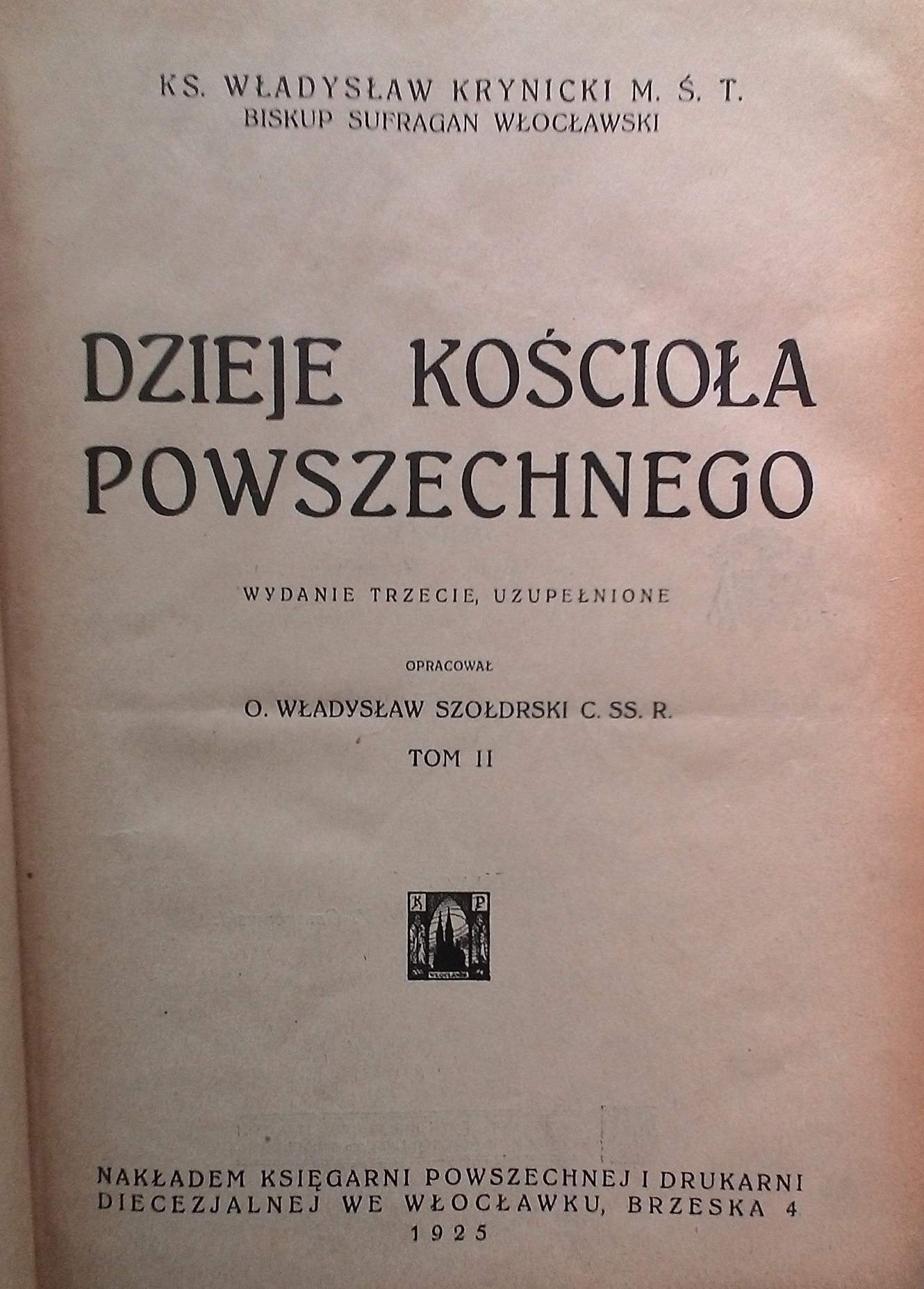 Dzieje Kościoła powszechnego